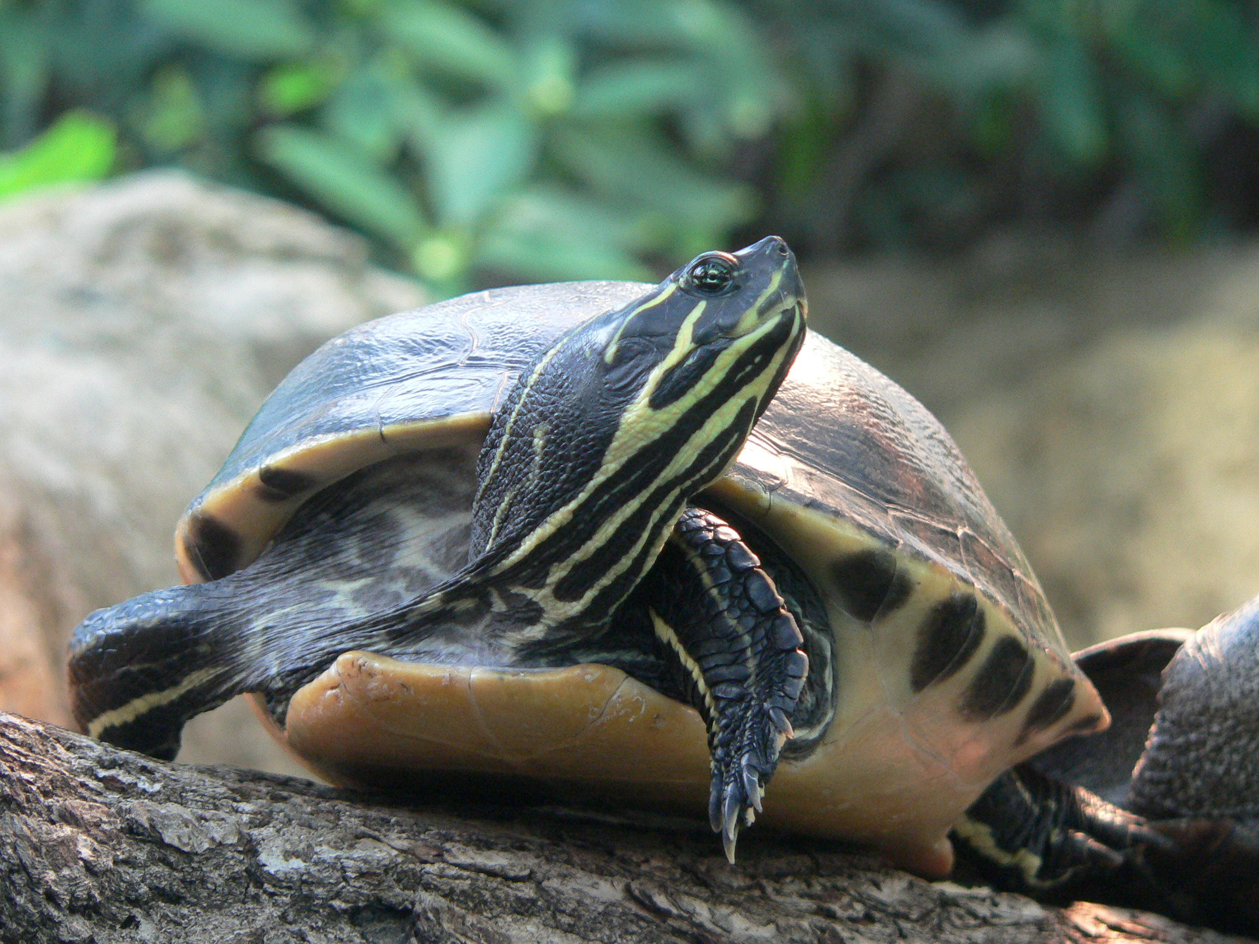 Pseudemys nelsoni